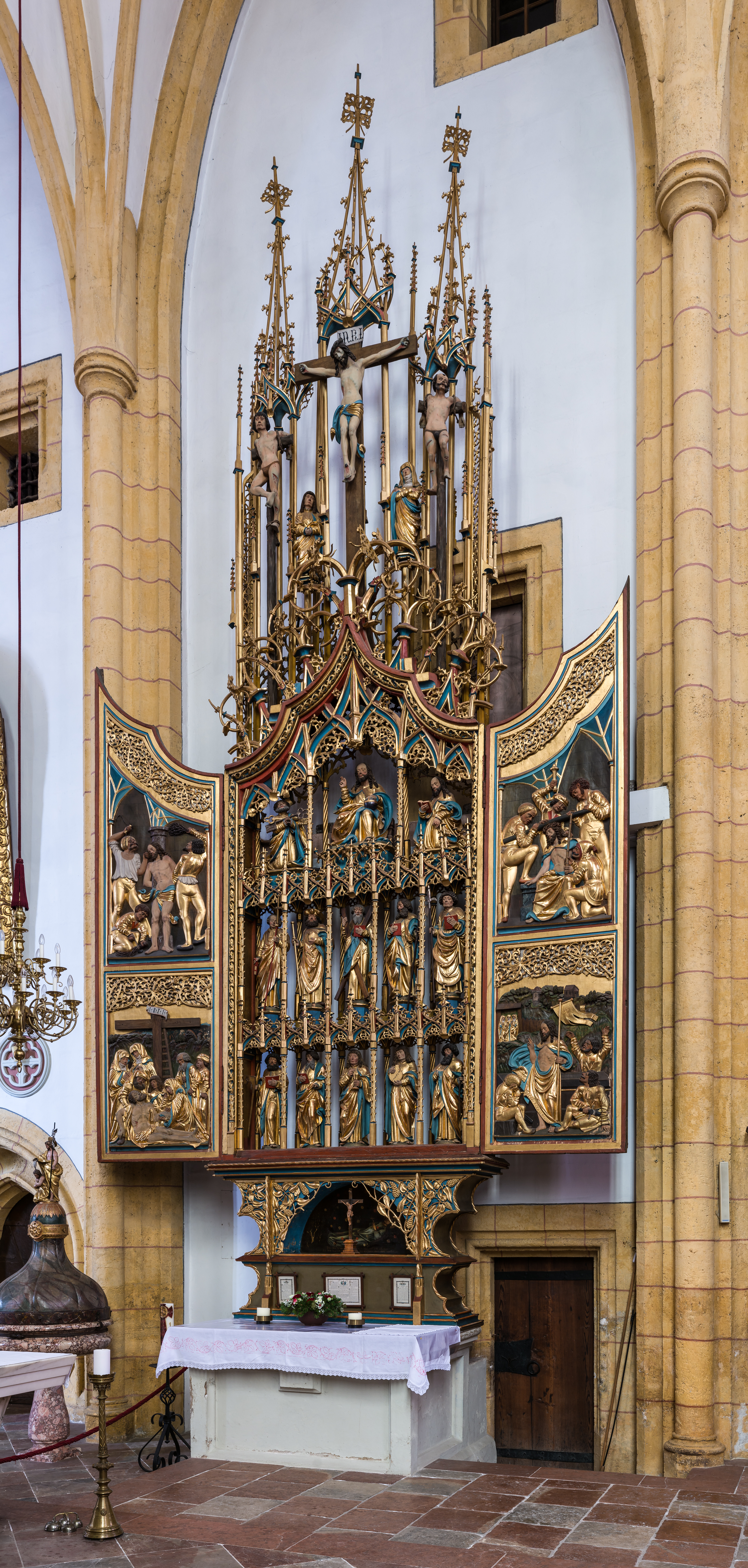 Altar of the Apostles at the parish church Gröbming, Styria, Austria. Lienhart Astl, around 1520.